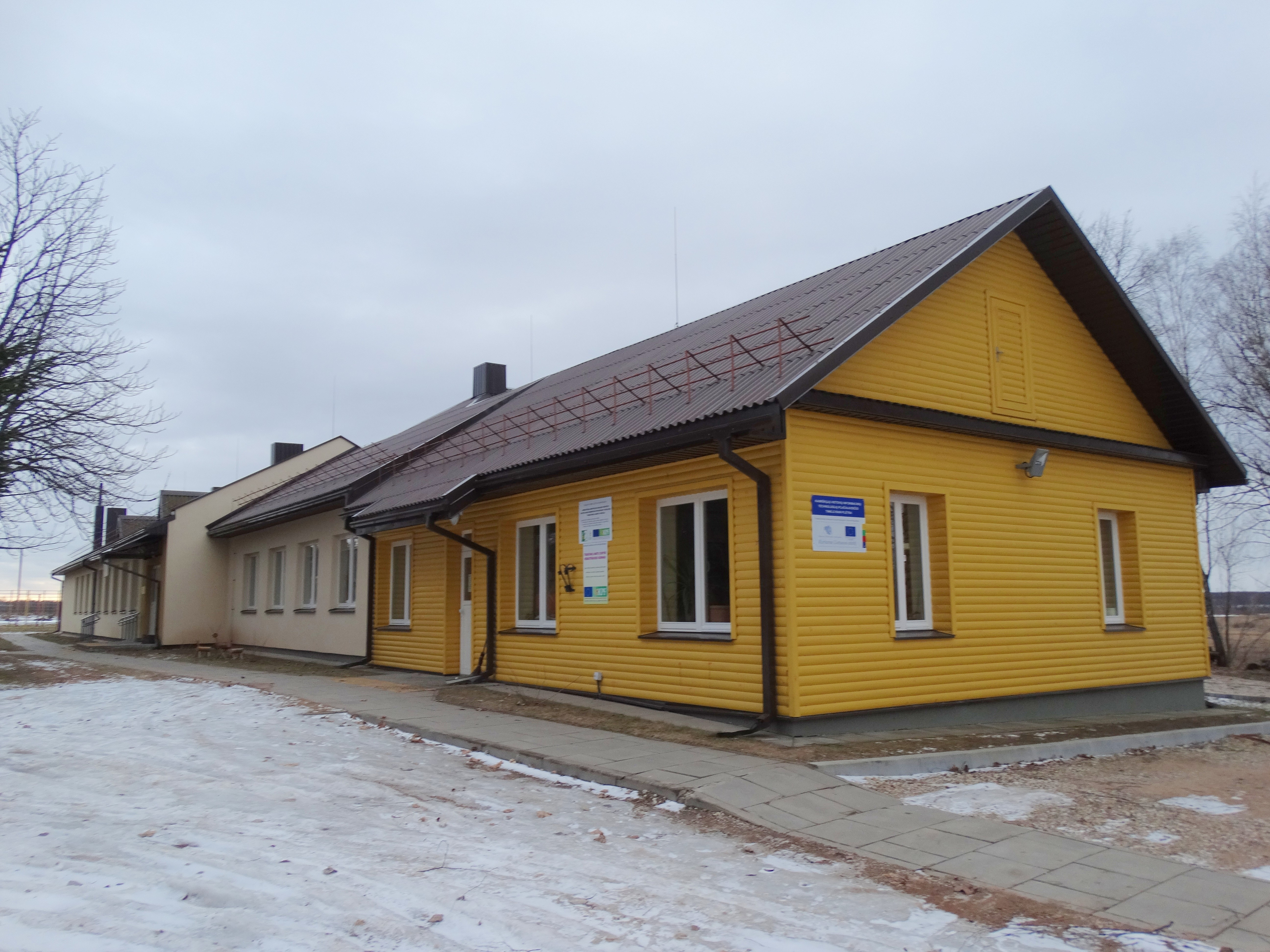 Library, Reškutėnai, Švenčionys district, Lithuania